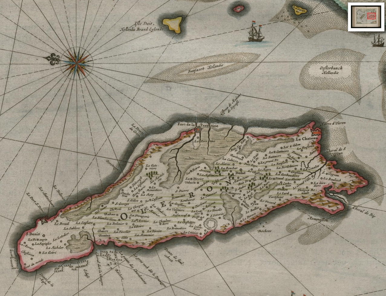 The French Island of Ile d'Oleron on an old map